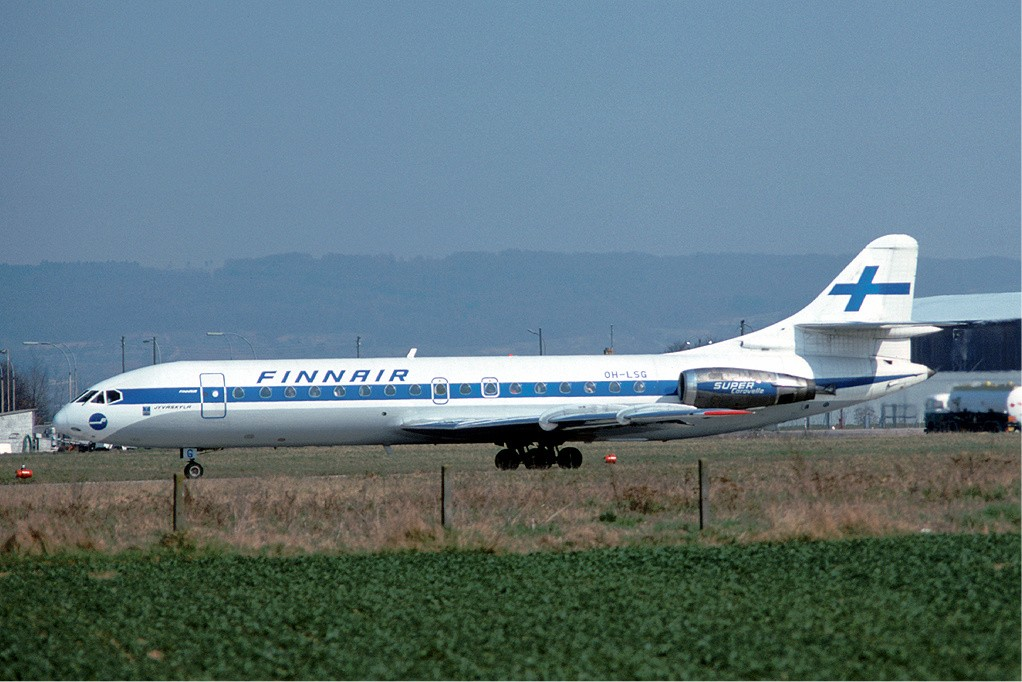 A Super Caravelle of Finnair at Basel Airport in April 1976